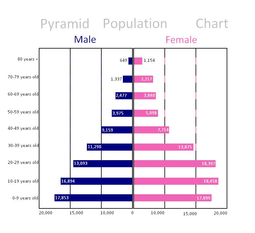 Population Chart, based of the Santa Tecla population data, retrieved form the Santa Tecla municipality website, under a pdf file: modificados/PEP/PEP1.pdf.